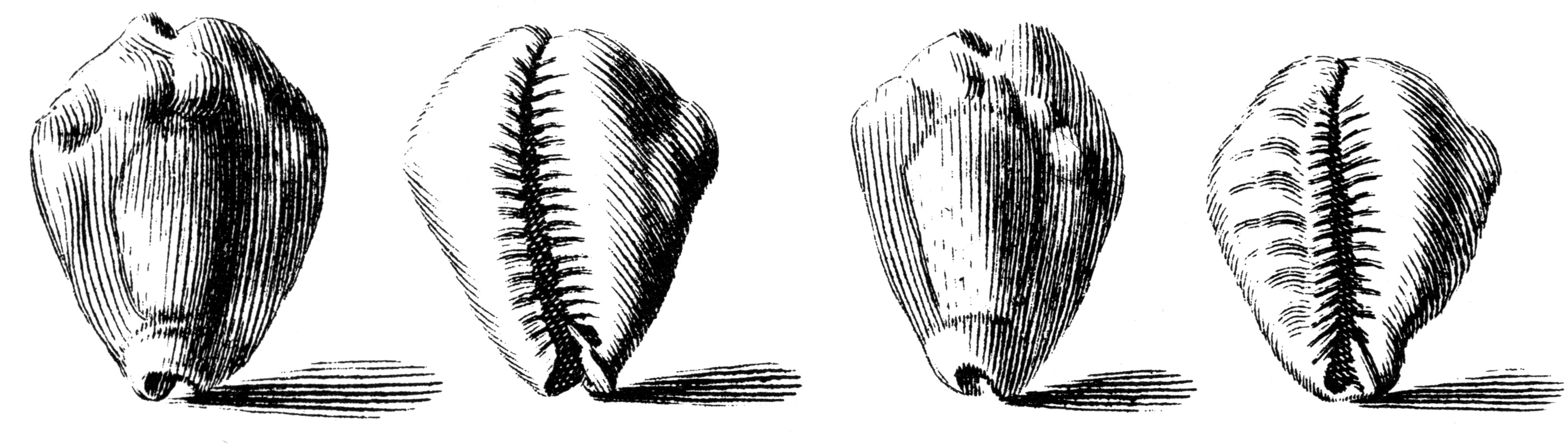 A drawing of Monetaria moneta (synonym :Cypraea moneta) Linnaeus, 1758